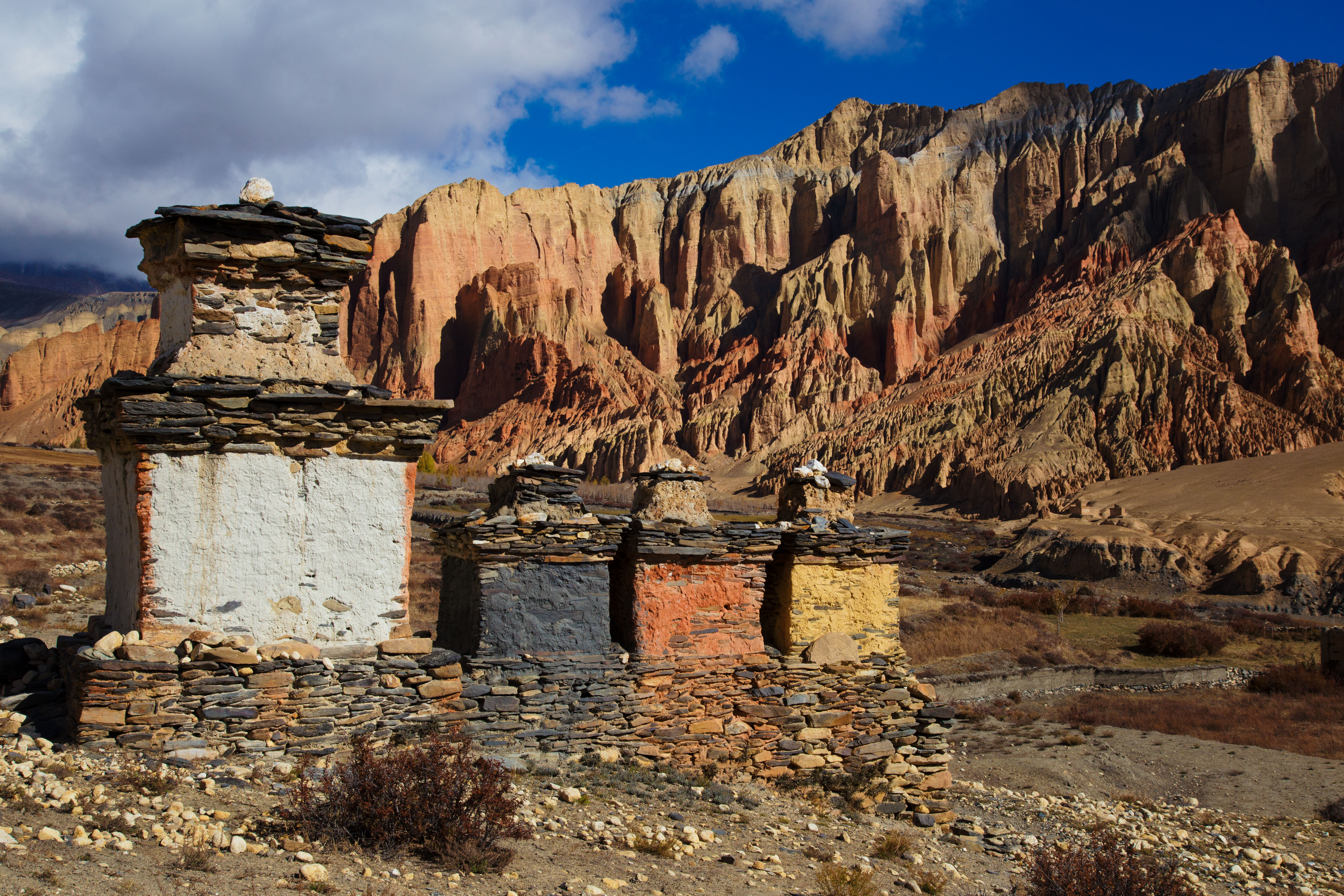 Everywhere in Mustang, the eye is caught by the red, white and grey stripes on the houses, the shortens and lhatos (seat of deities), grouped in threes. This “Trinity”, the so-called rigsum gonpo, represents the most powerful and popular deities in Mustang.White represents the Avalokiteshvara, the Bodhisattva of immeasurable compassion, red the Manjushri, the Bodhisattva of knowledge and wisdom, and black/grey the Vajrapani, the Bodhisattva who combats evil. These three colours simultaneously stand for the three spheres, white for the heavenly, read for the earthly and black for the underworld. The colours used originate from the locally available materials,which can result in minor colour differences, although this changes nothing about their significance. - Rob Powell, Earth Door, Sky Door